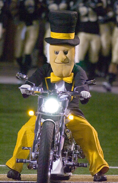 Wake Forest University's mascot, the Demon Deacon, riding his motorcycle into Groves Stadium. At the beginning of each home football game, the Demon Deacon leads the players on to the field to face the visiting team and to pump up the crowd.